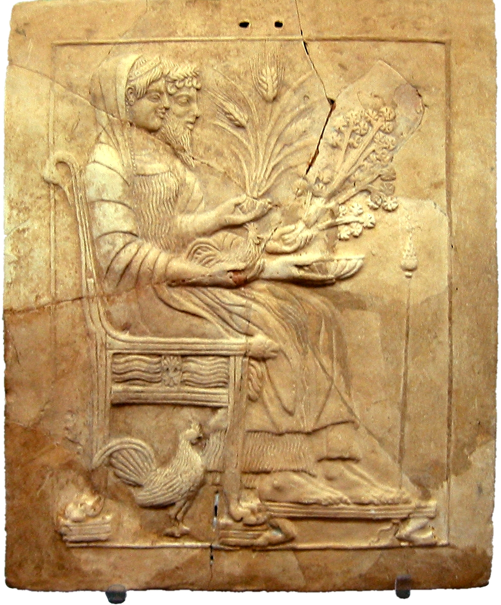 Pinax of Persephone and Hades on the throne. Found in the holy shrine of Persephone at Locri in the district Mannella. Locri was part of Magna Graecia and is situated on the coast of the Ionian Sea in Calabria in Italy. Source: Picture taken by myself in the Museo Nazionale Archeologico at Reggio Di Calabria in Italy, September 2002. See other Pinakes from Locri Eros Hermes And Aphrodite Persephone Opens Likon Mystikon Man With Horse